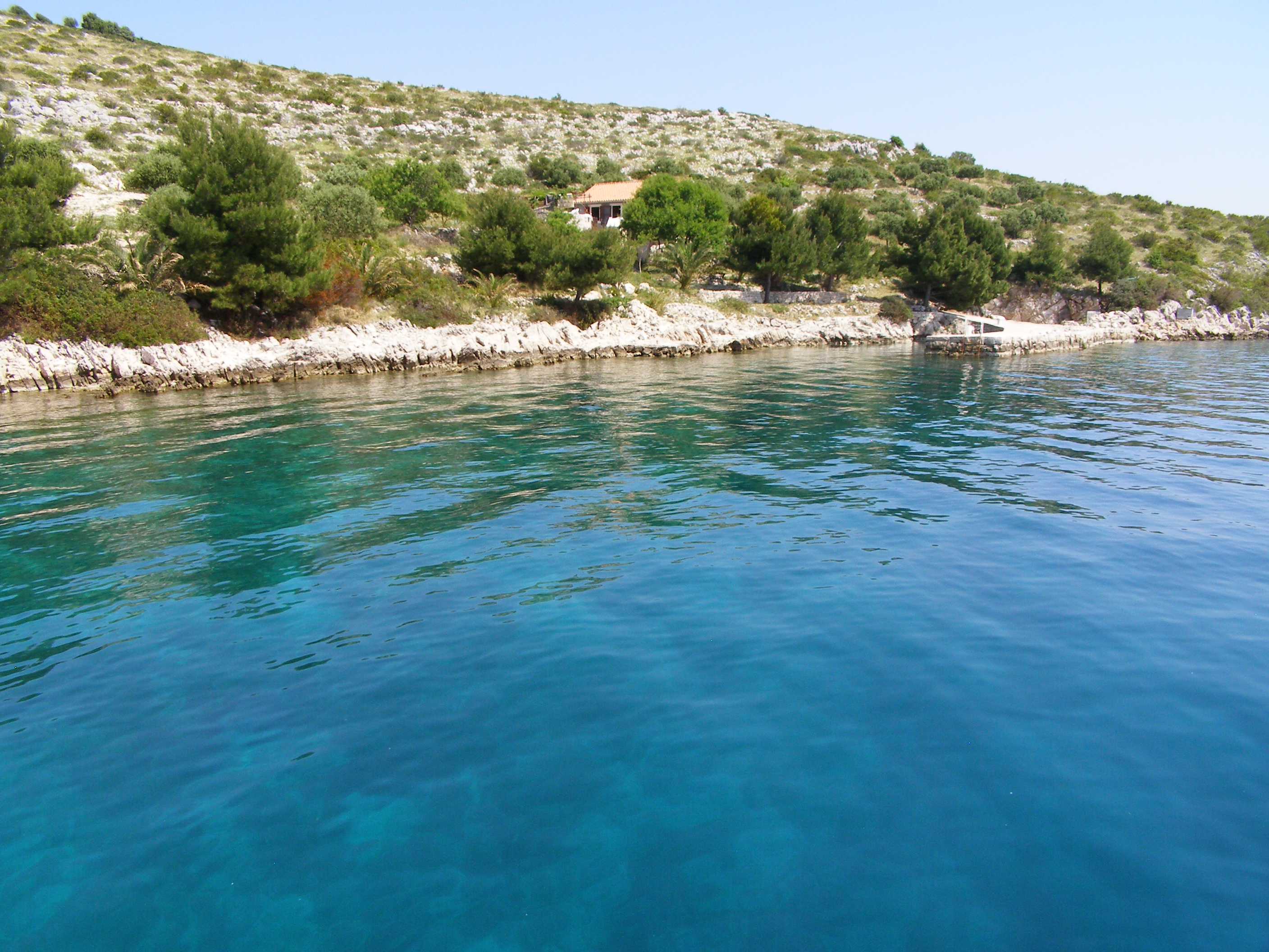 Croatia, Kornati, Sit